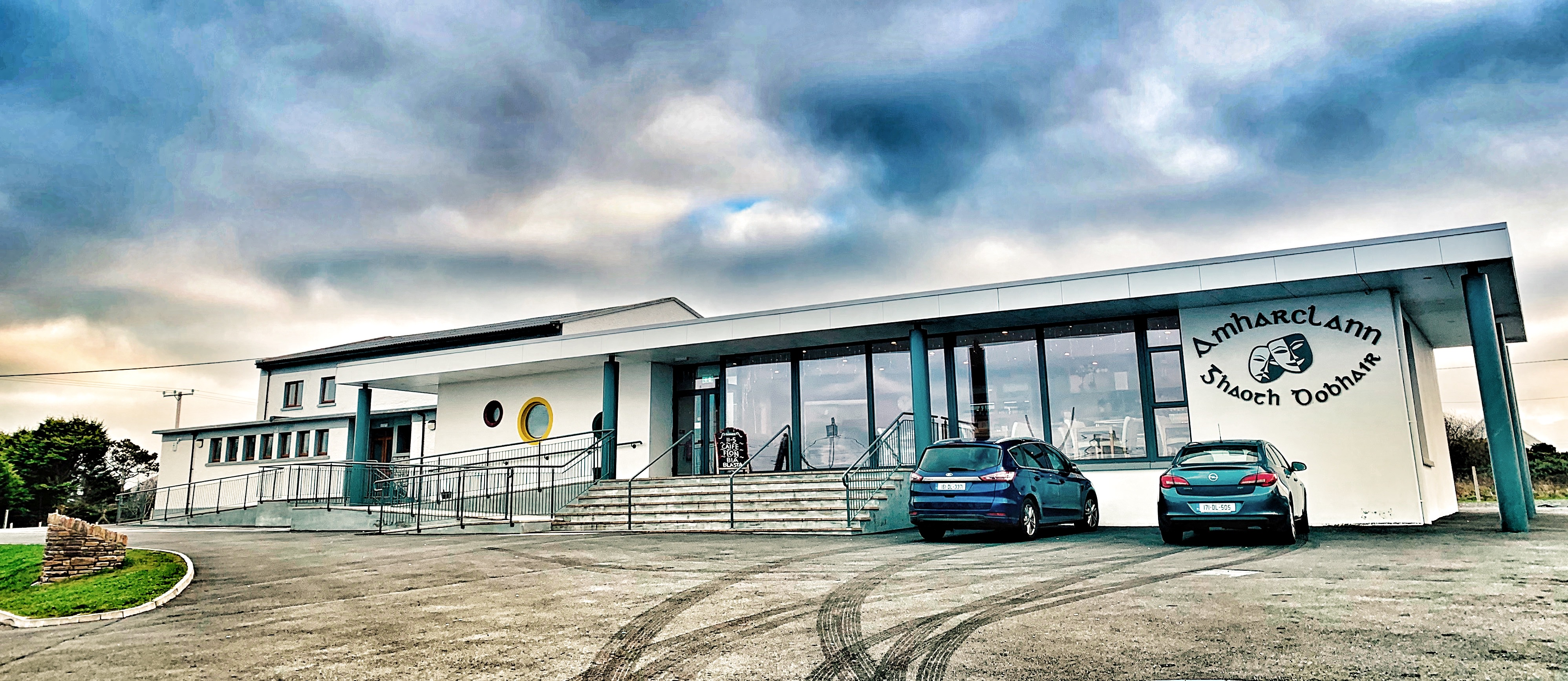 Edit of the original image. Gweedore Theatre, County Donegal, Ireland